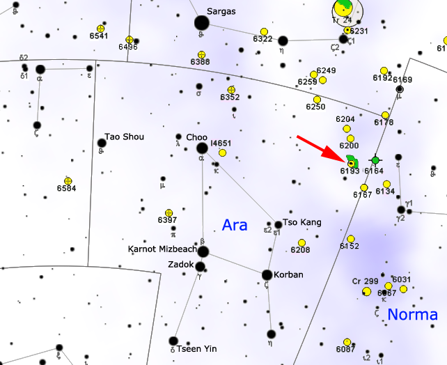 Map of NGC 6193